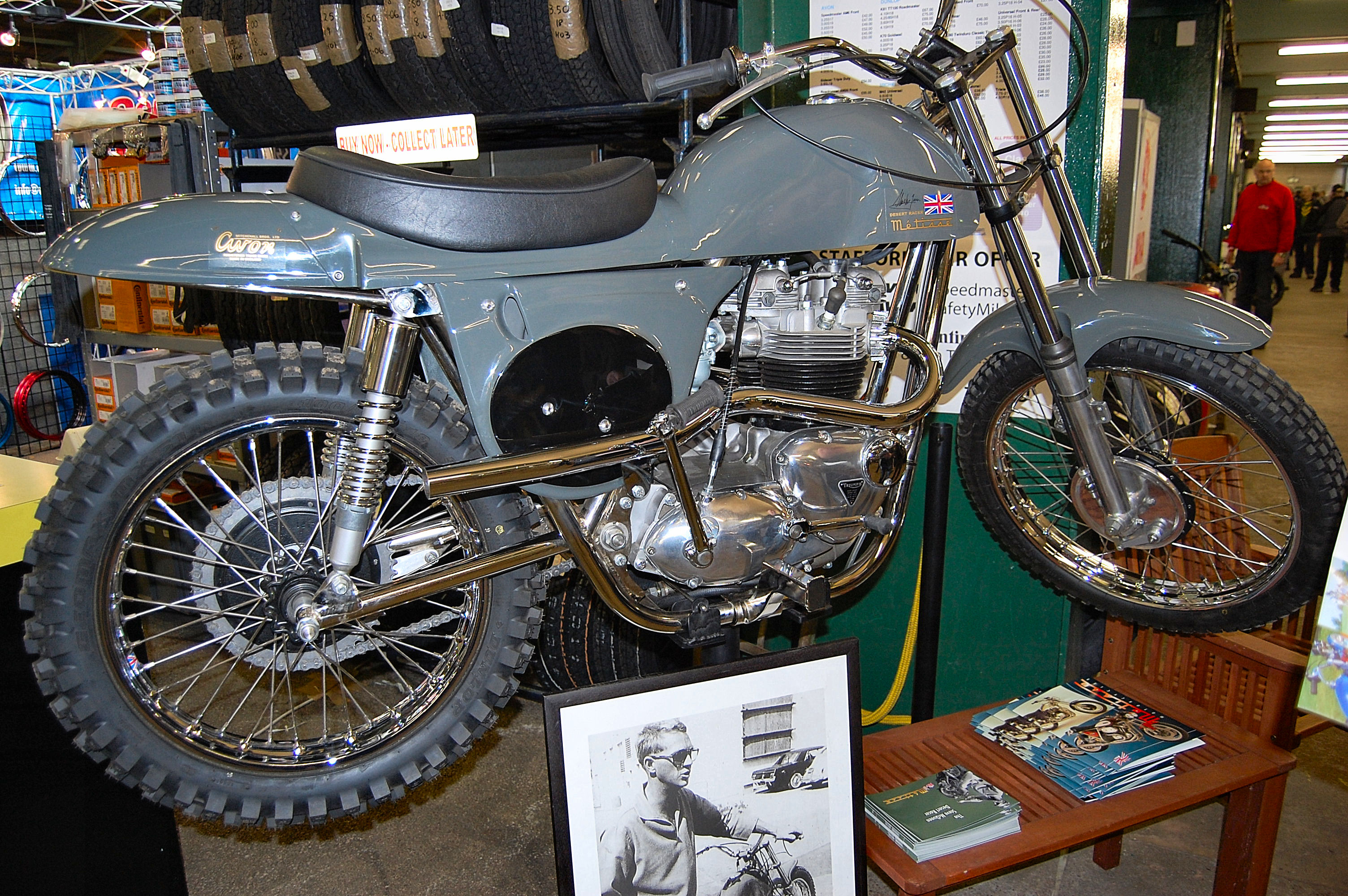 Métisse Motorcycles is a motorcycle manufacturer based in Carswell near Faringdon, Oxfordshire, England. It has produced motorcycle frame kits for British and American bike engines for over 40 years. Originally started by the Rickman brothers to offer lightweight, strong frames and rolling chassis for competitive motocross use. Métisse are manufacturing a limited edition of 300 complete motorcycles, to be called the Steve McQueen Métisse Desert Racer, which are replicas of a motorcycle raced by actor Steve McQueen in 1966 and 1967.[1][2] McQueen's bike, which used a Métisse frame, was built by the actor and his friend, stuntman Bud Ekins.